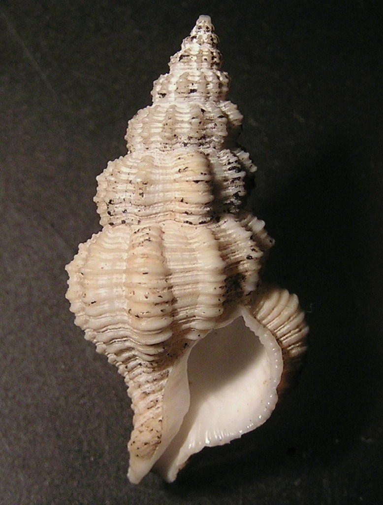 Nassaria exquisita Fraussen & Poppe, 2007 , a true whelk from the family Buccinidae; South China Sea